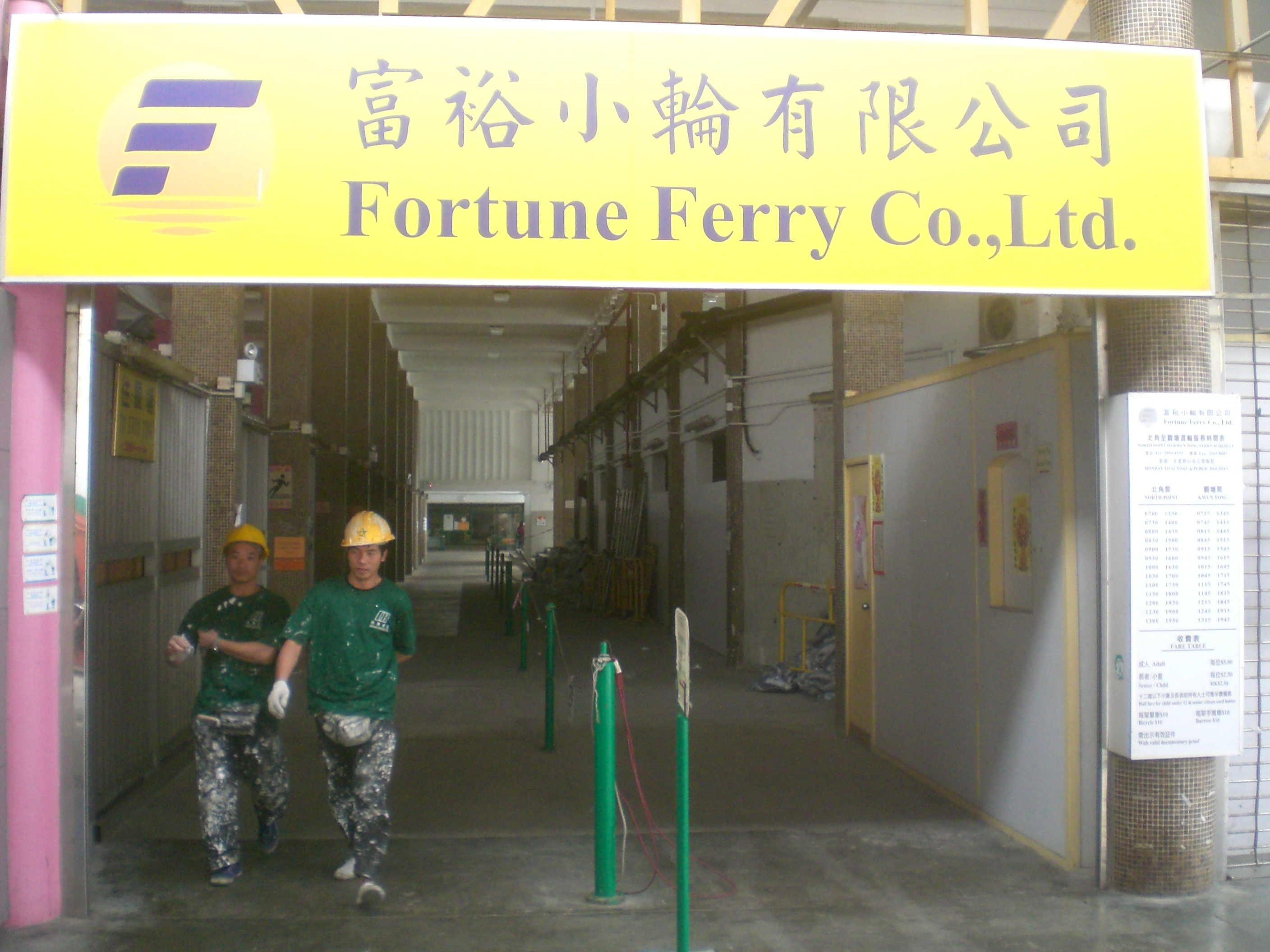 水路zh:北角至zh:觀塘 富裕小輪 北角碼頭